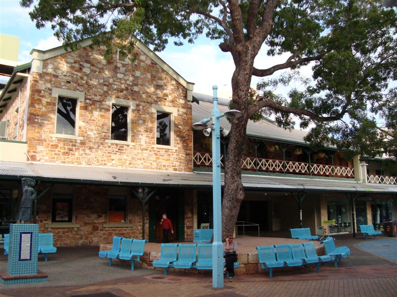 Self made. Photo of Victoria Hotel in Darwin in May 2008.